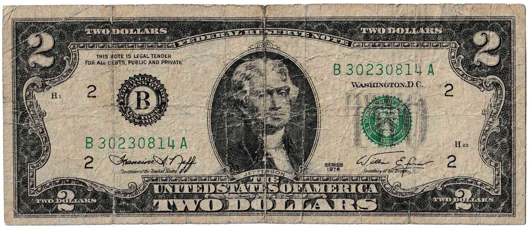 A Series 1976 2 dollar bill, heavily yellowed and worn over the course of 43 years of circulation.